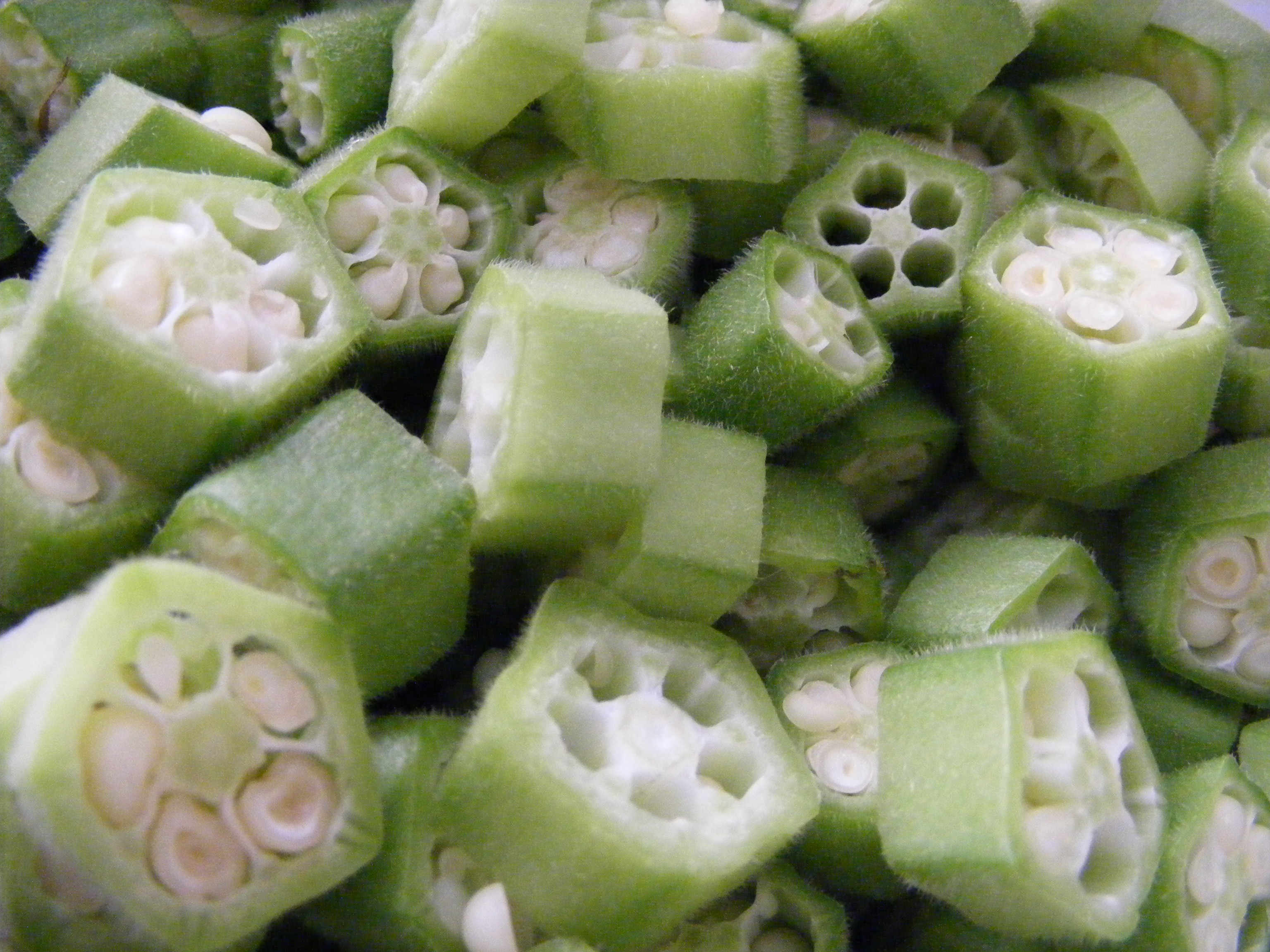 Pentagonal cross-sections apparent in cut-up okra.